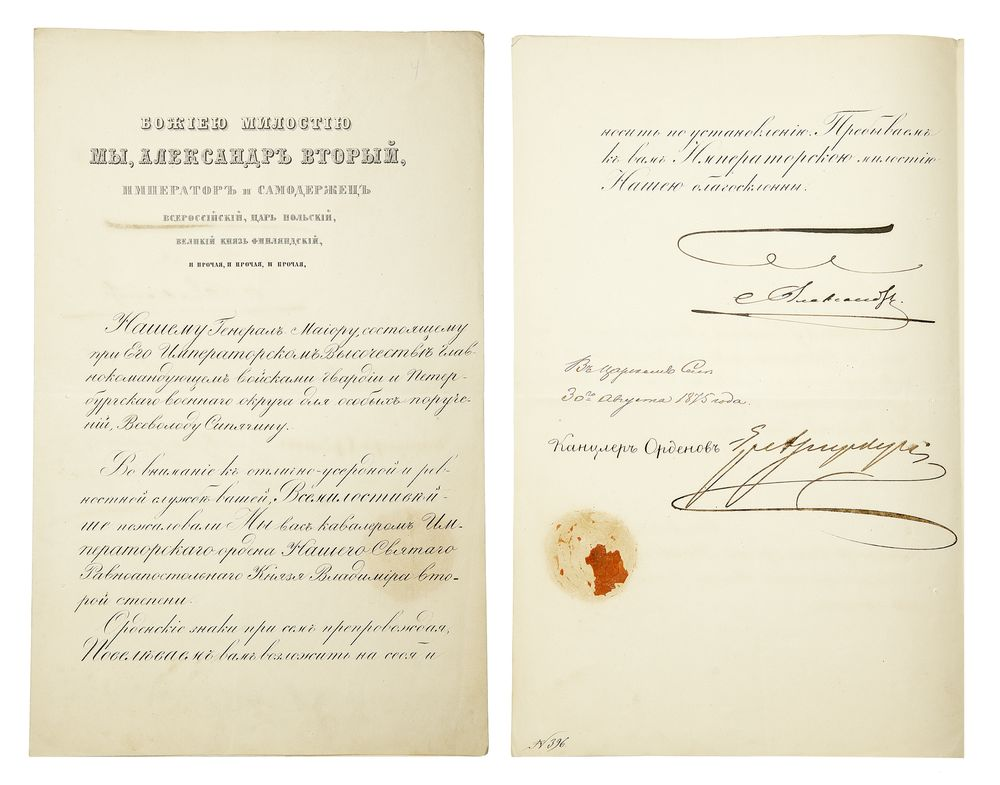 Award document awarding Vsevolod Sipyagin Order of St. Vladimir 2nd degree.